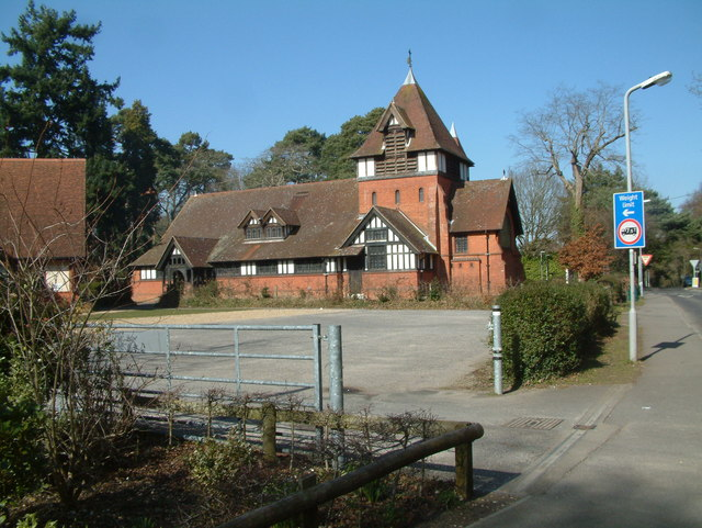 St. Michael's and All Angels' Church, Colehill, Dorset